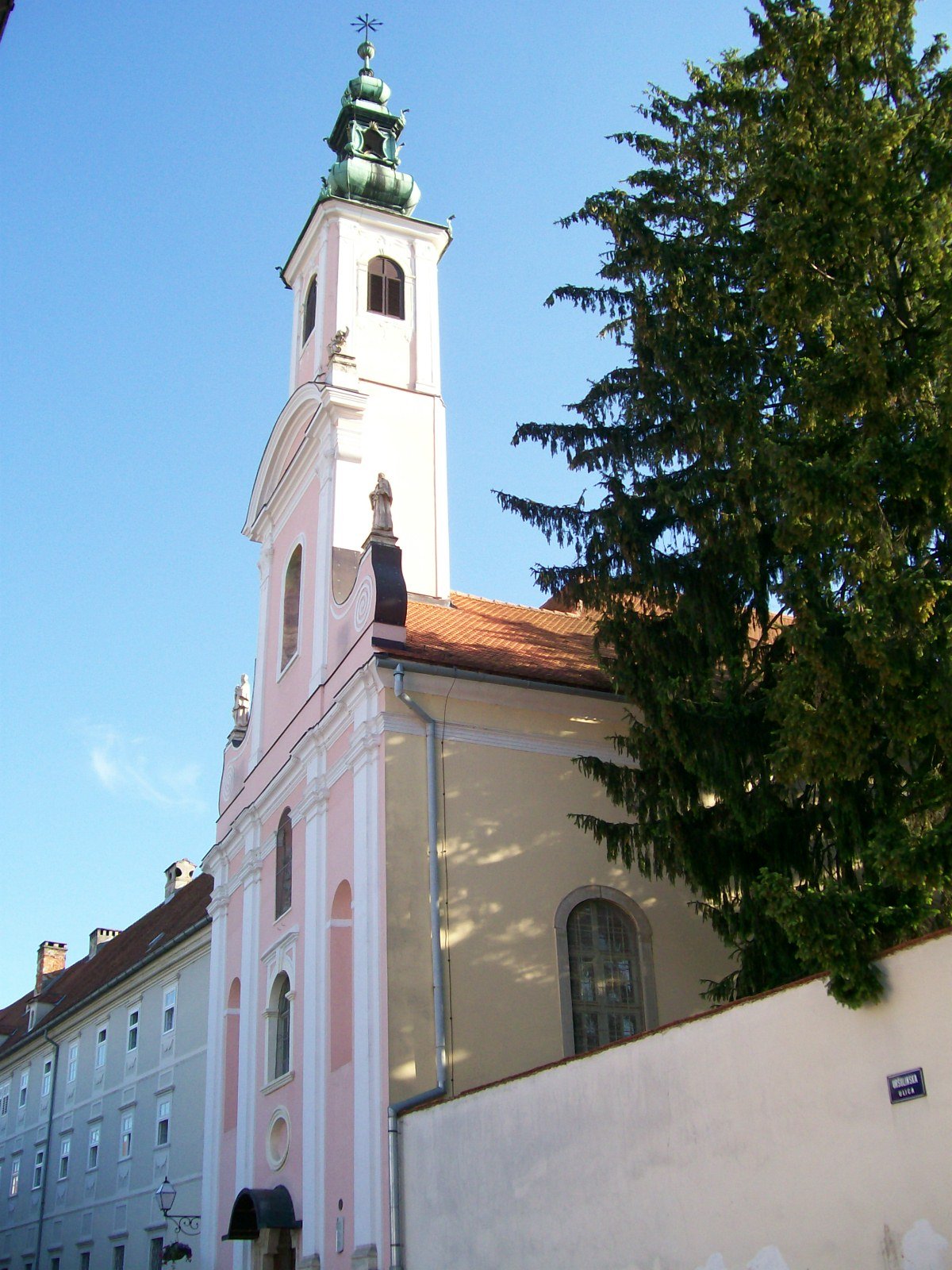 Ursuline church of the Birth of Christ, Varaždin